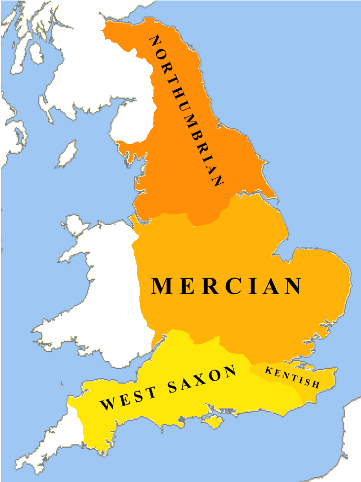 This image shows the dialects of Old English as they were just prior to the Viking incursions (which altered the speech of the East Midlands and North). Most written works in Old English are in the West Saxon dialect; however, modern standard English descends largely from the Mercian dialect. The modern descendant of the West Saxon dialect can be found in places like Wiltshire, Somerset, and Bristol.